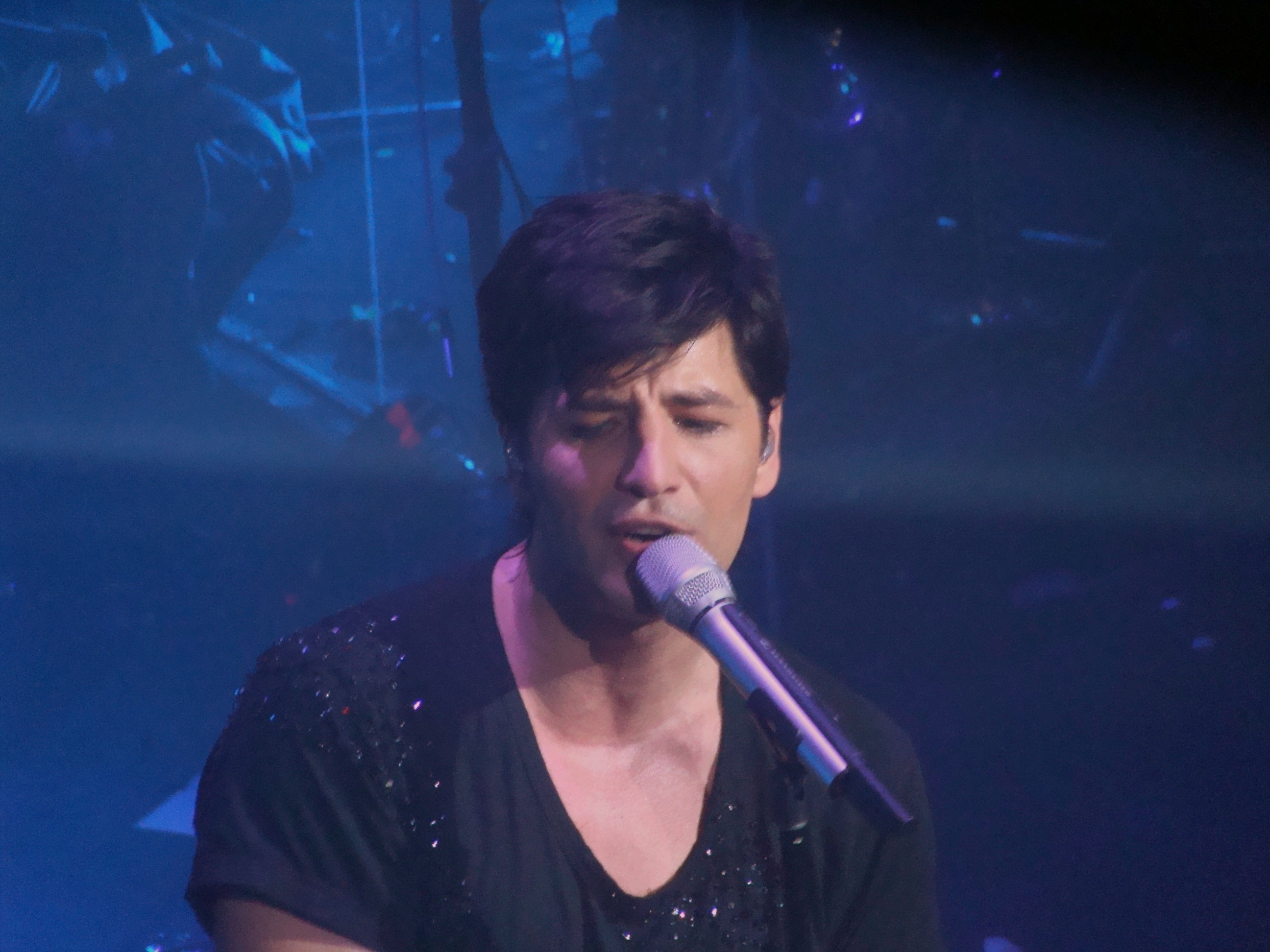 A photograph I took myself of Sakis Rouvas at his New Year's performance at STARZ club with the Maggira Sisters in Athens.